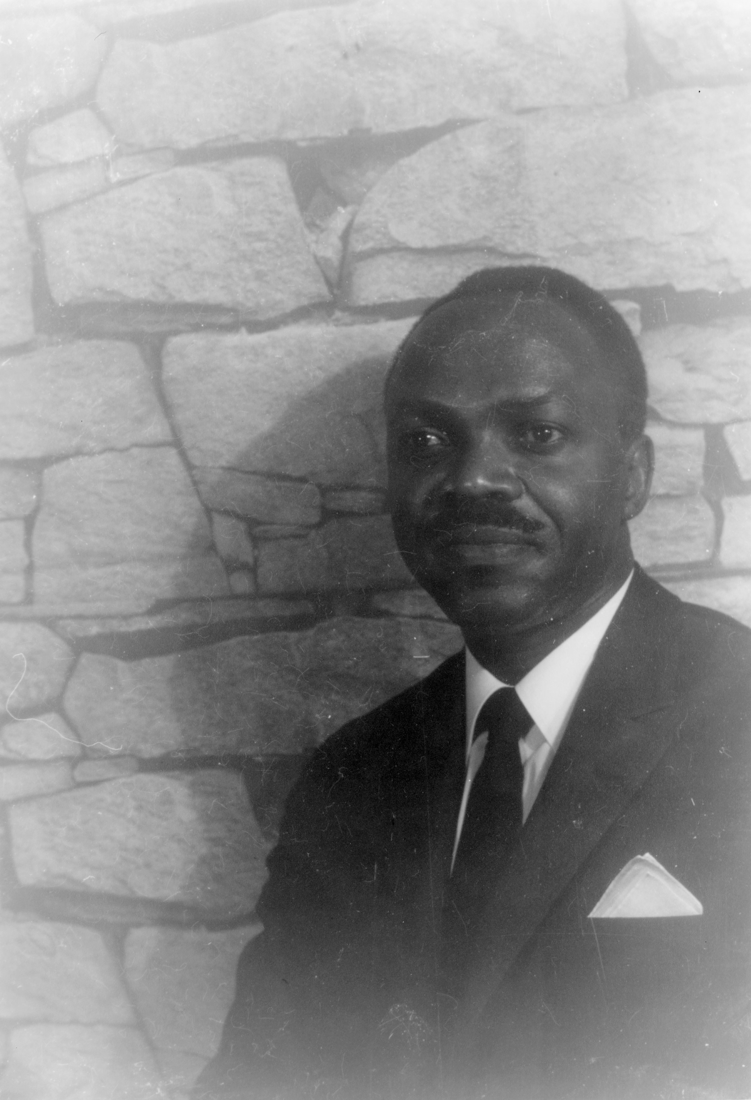 E. R. Braithwaite photo taken by Carl Van Vechten, photographer. CREATED/PUBLISHED 1962 Apr. 24.